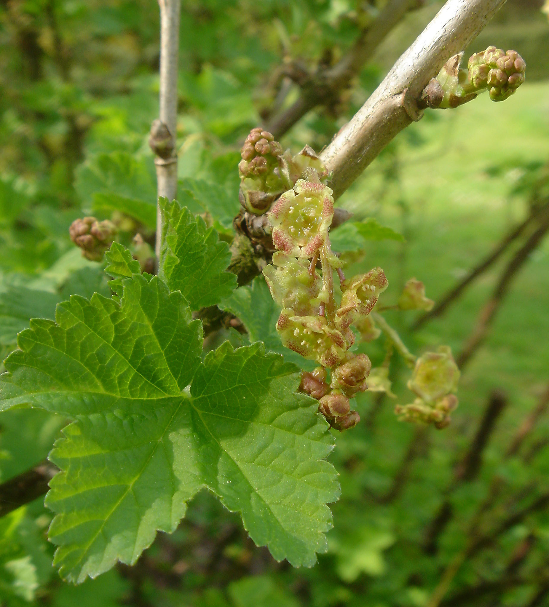 Redcurrant flowers